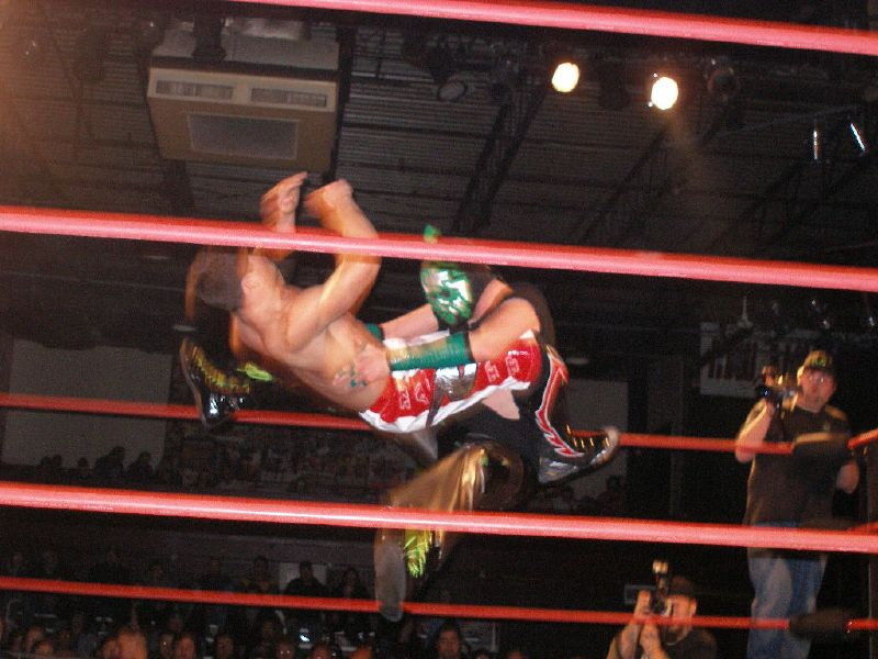 Professional wrestler Hallowicked performing a Rydeen Bomb on Matt Sydal at a Chikara show on February 18, 2007